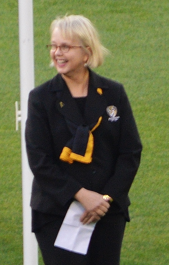 Peggy O'Neal at the 2017 AFL Premiership flag unfurling ceremony prior to Richmond's round 1 AFL match against Carlton at the MCG.